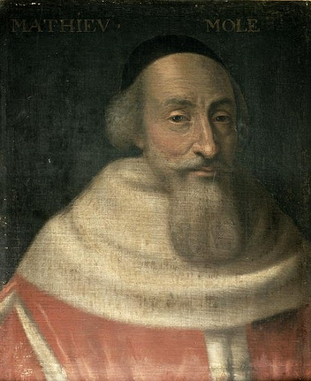 Portrait of Mathieu Molé (1584-1656)